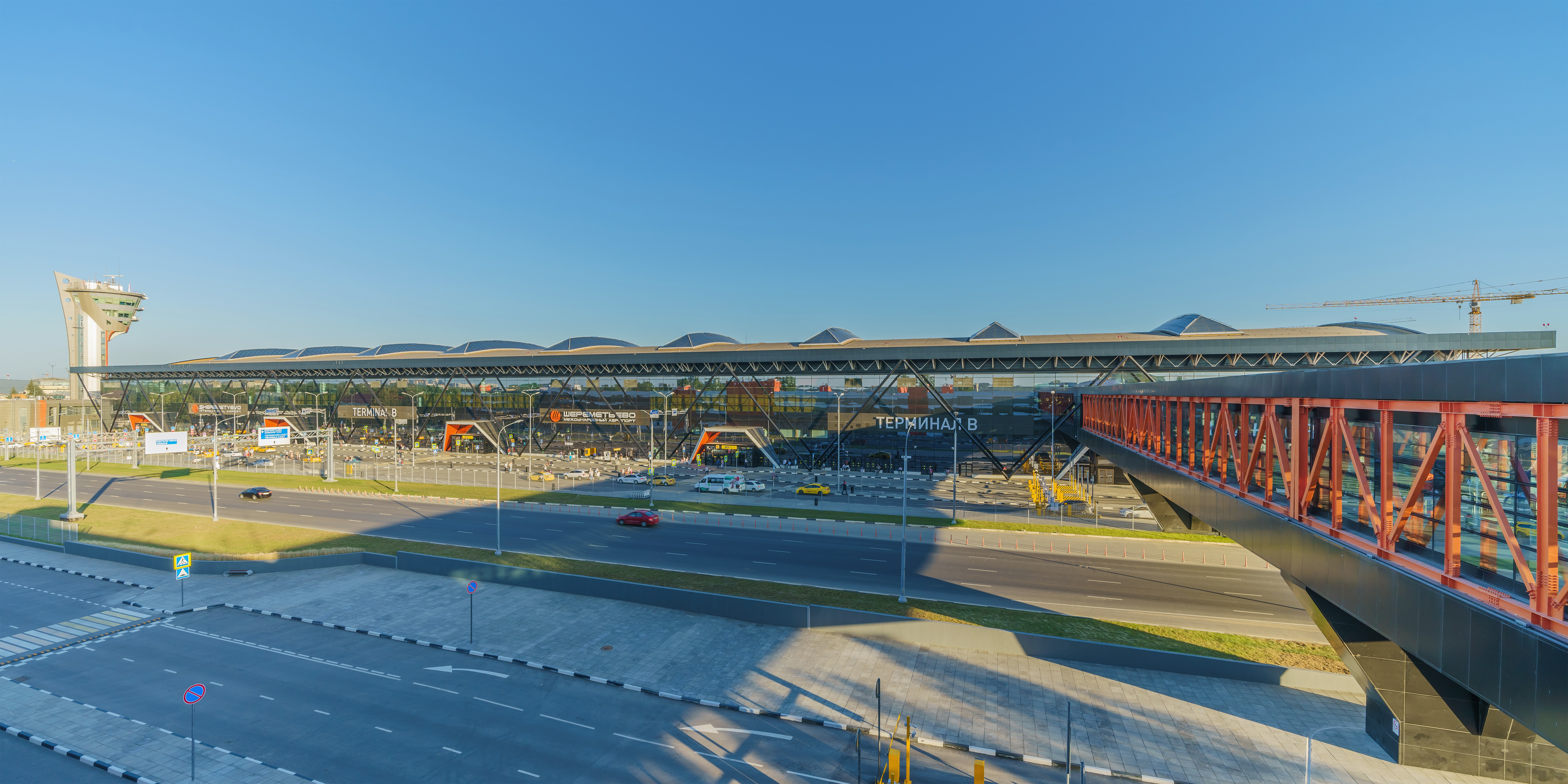 New Terminal B of Sheremetyevo Int. Airport, Moscow Oblast, Russia.